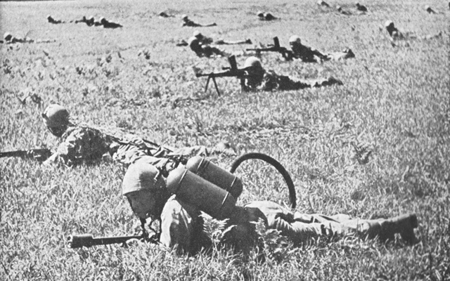 Imperial Japanese Army paratroopers during an exercise. The soldier in the foreground is armed with a Type 100 flamethrower. In the background two paratroopers are ready to fire their Type 99 light machine guns.